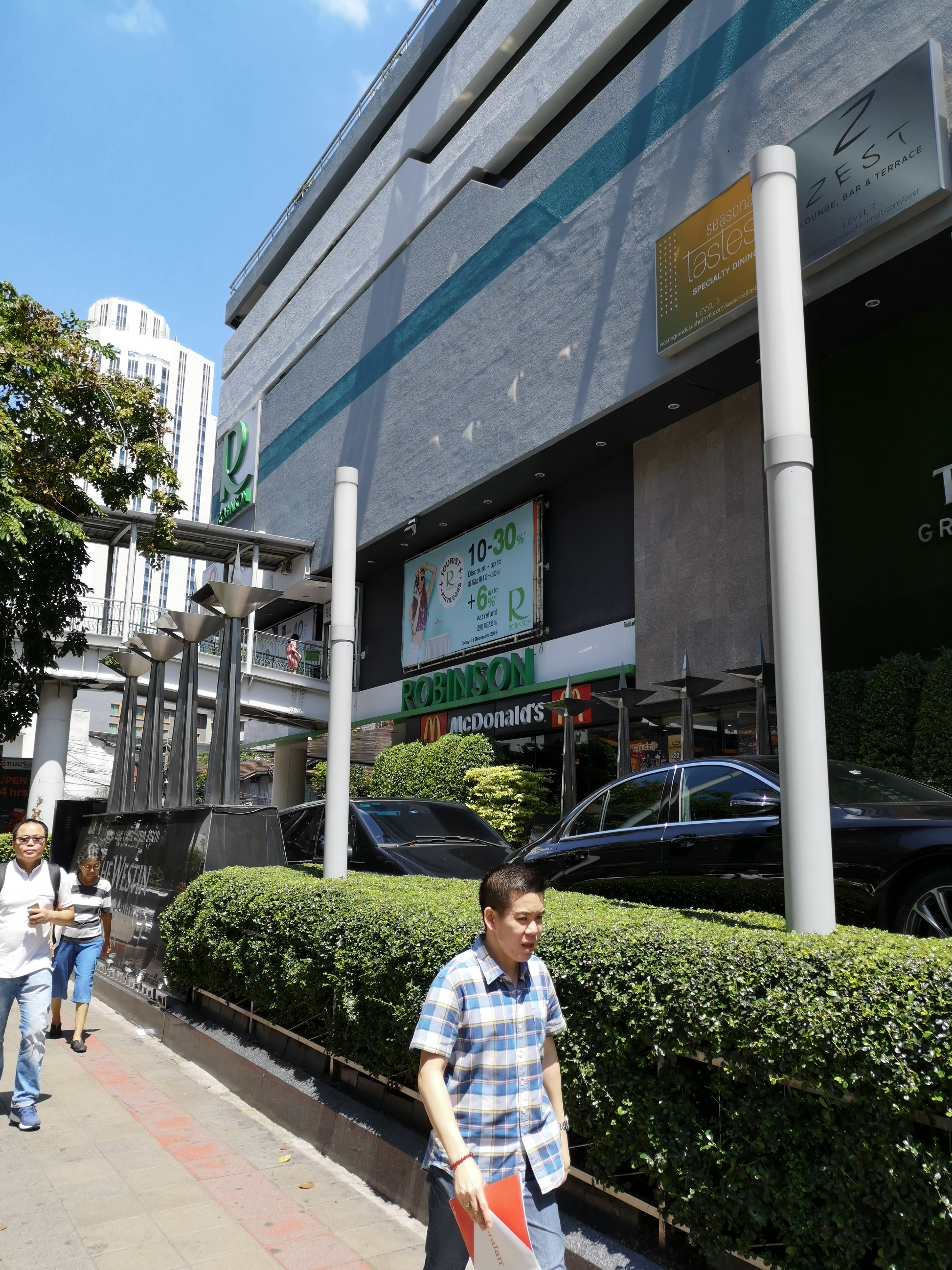 Robinson, Asoke branch